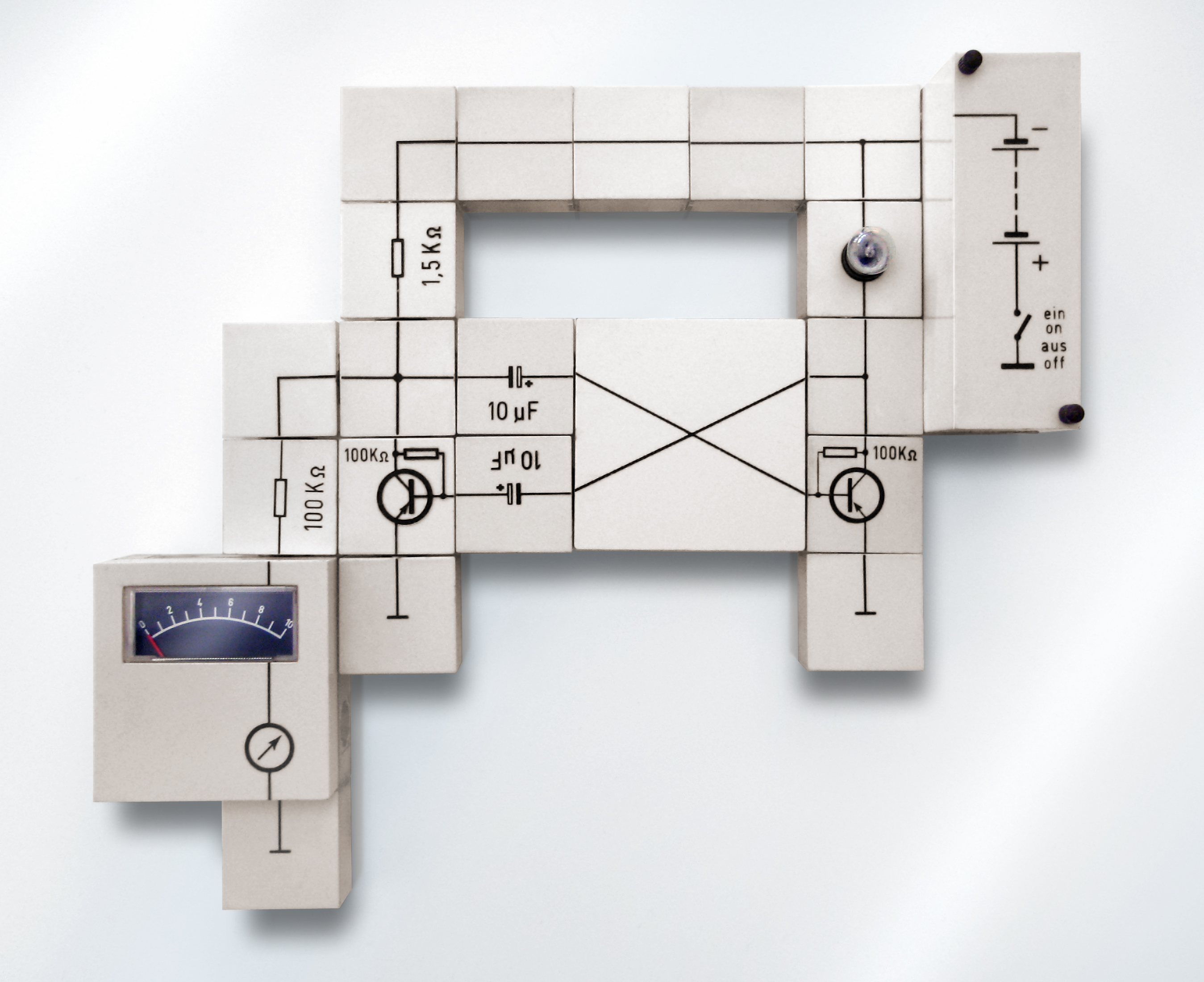 Egger Lectron, a modular electronic experimentation kit manufactured by Egger, distributed in northern America by Raytheon subsidiary Macalaster Scientific, worldwide by Braun.